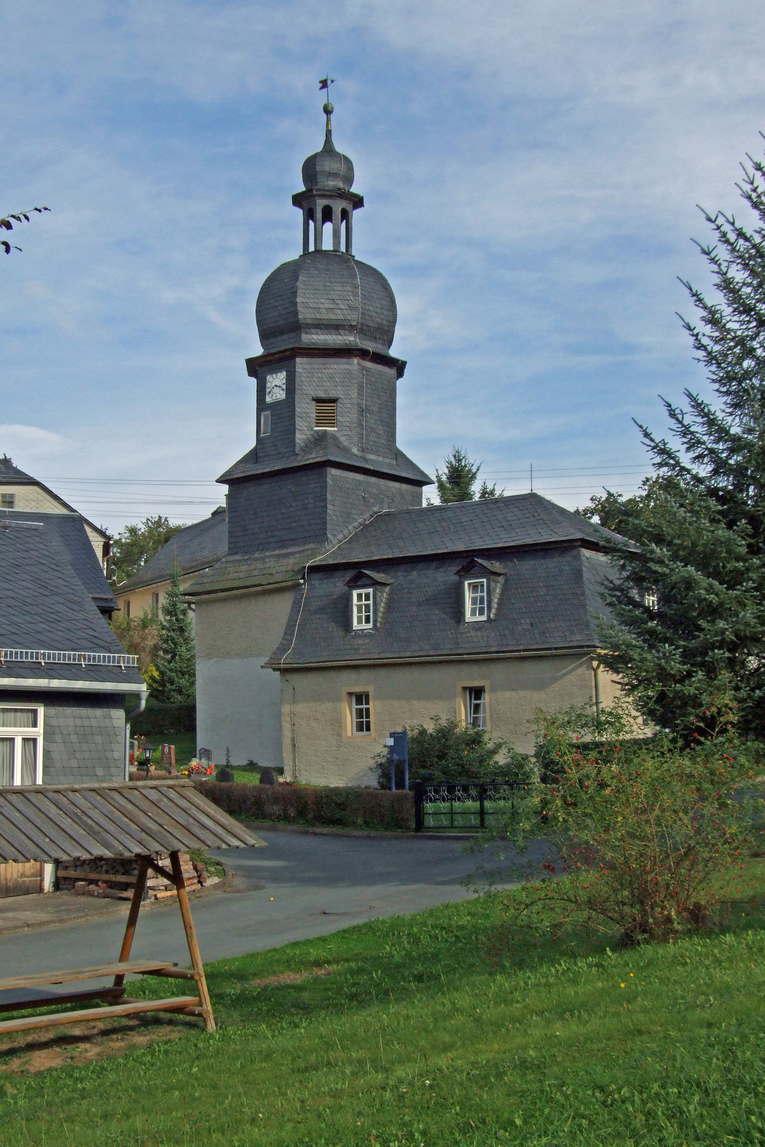 Church Herschdorf